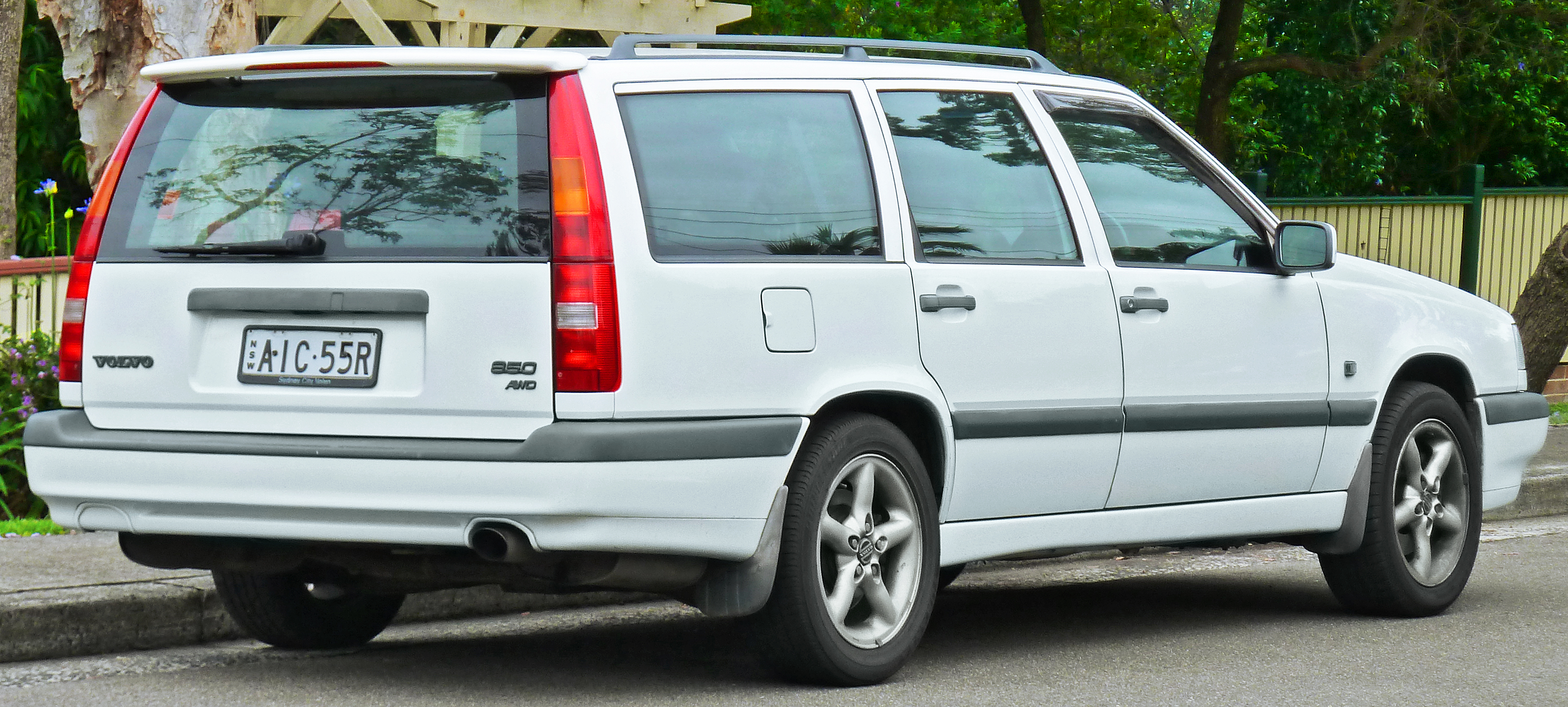 1997 Volvo 850 AWD station wagon. Photographed in Lindfield, New South Wales, Australia.